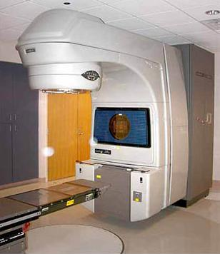 Photo of linear accelerator